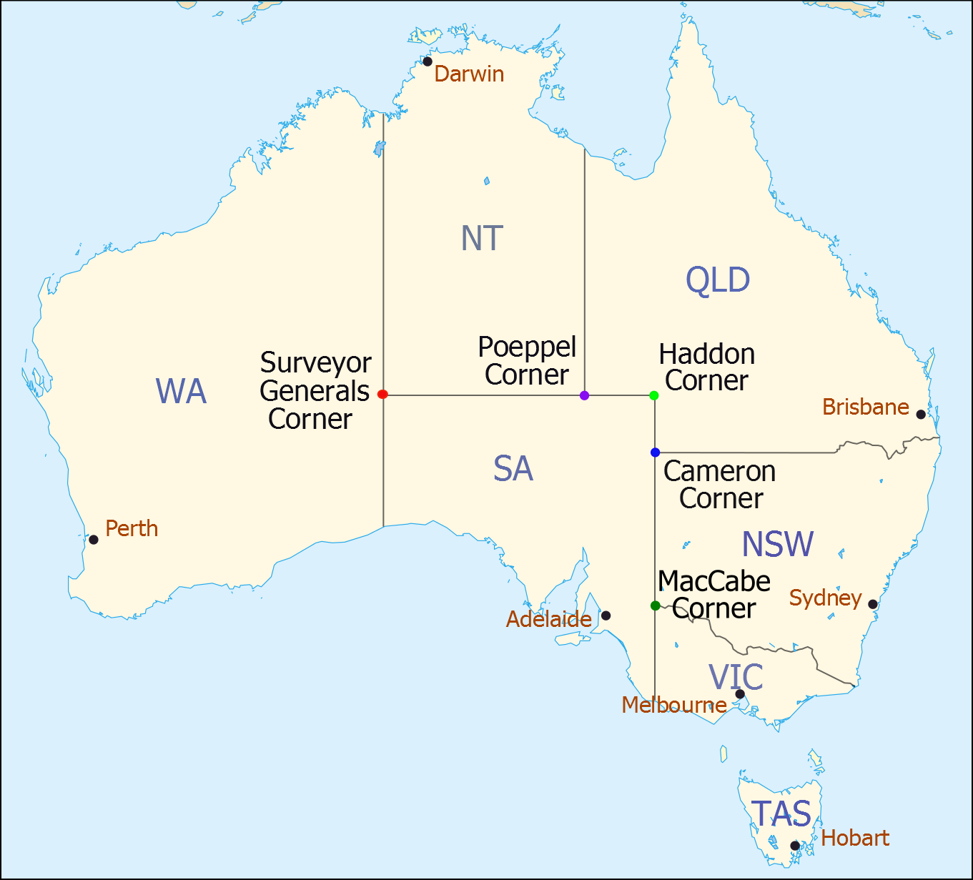 AUS map with state corners